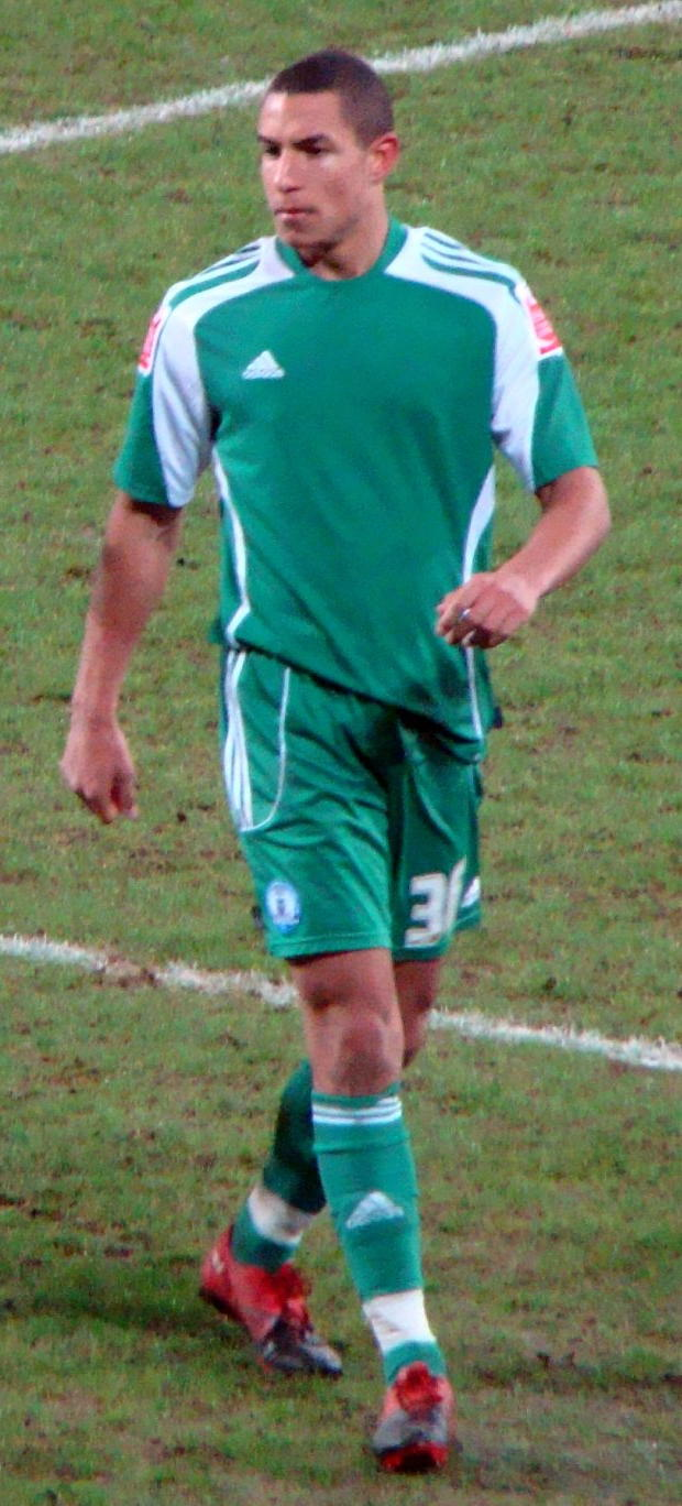 Photo of footballer Jake Livermore